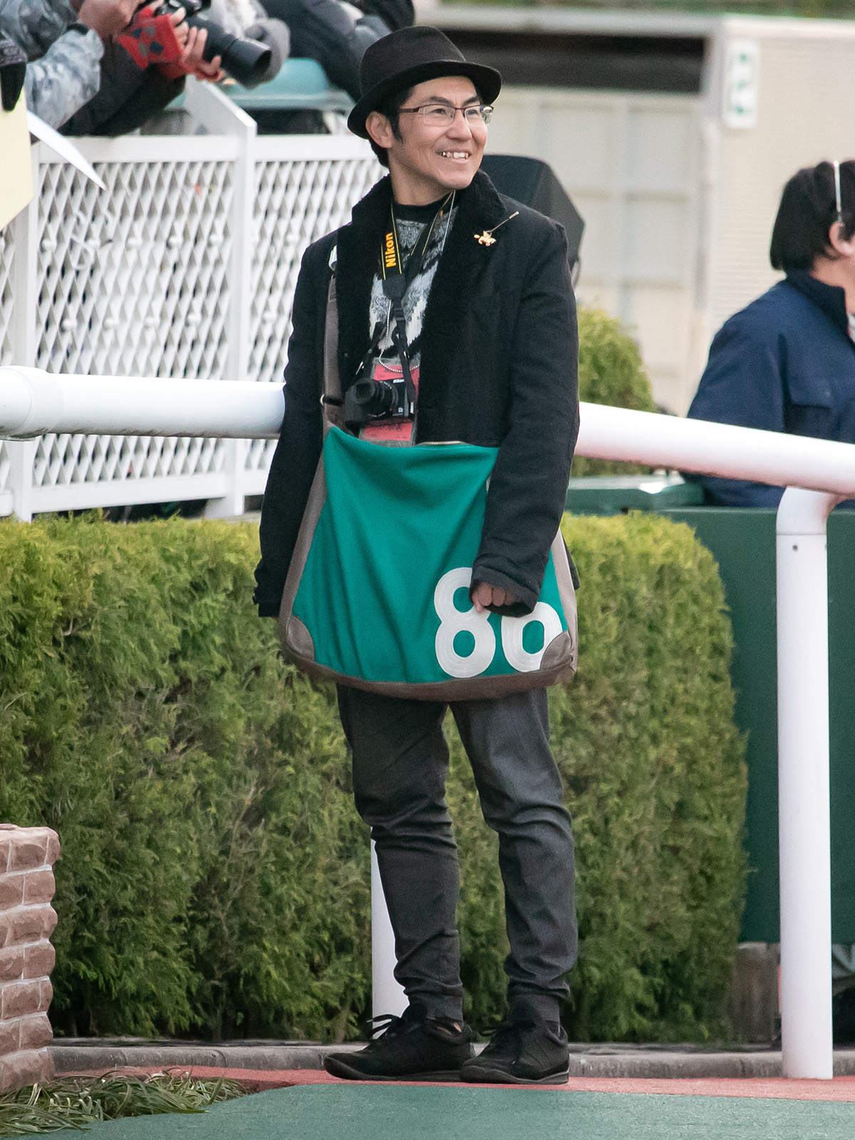 Katsuyoshi Tsuneishi, ex-Jockey of JRA.